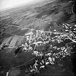 Image of the landscape at a height of 600 meters from the Maul's rocket launched in 1904.